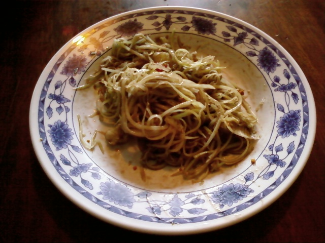 Cuisine of Cambodia